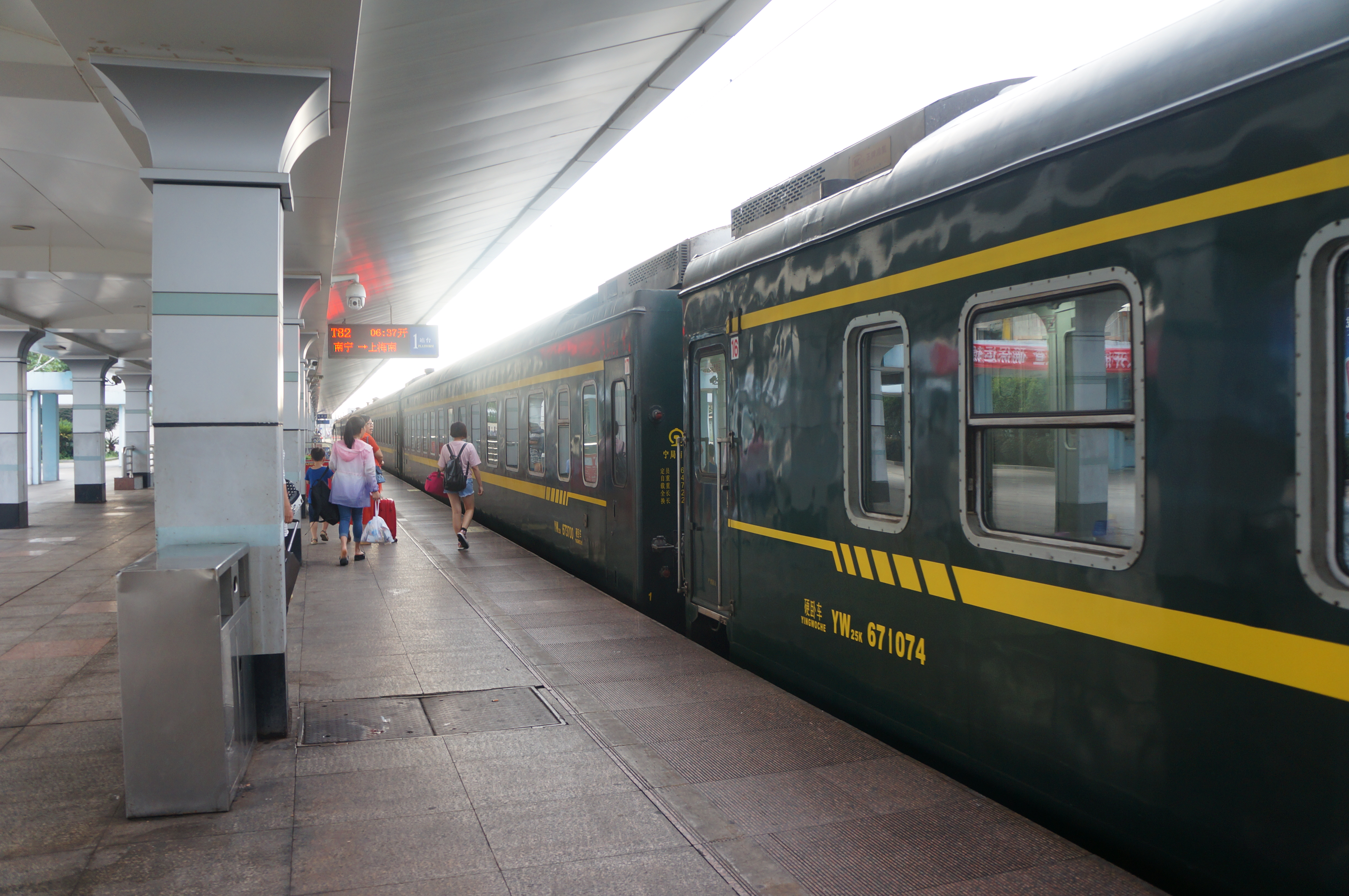 201708 T82 on the Platform 1 of Yingtan Station. Planned to take K942.